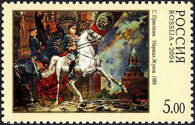 Glory to the Fatherland! Patriotic theme in the contemporary painting.Marshals of the Soviet Union Georgy Zhukov and Konstantin Rokossovsky on the Red Square 24 June 1945[1] by Sergey Prisekin (born 1958). 1989. Oil on canvas. 250×330 cm. Central Armed Forces Museum.The stamp of Russia, 5.00 Rubles, 8 June 2004, PTC Marka Catalogue No 953, Michel No 1185, Scott No 6849. Coated paper. Offset printing. Perforation: comb 12×11½. Size of the stamp: 49.4×21.3 mm. Print run: 250,000.